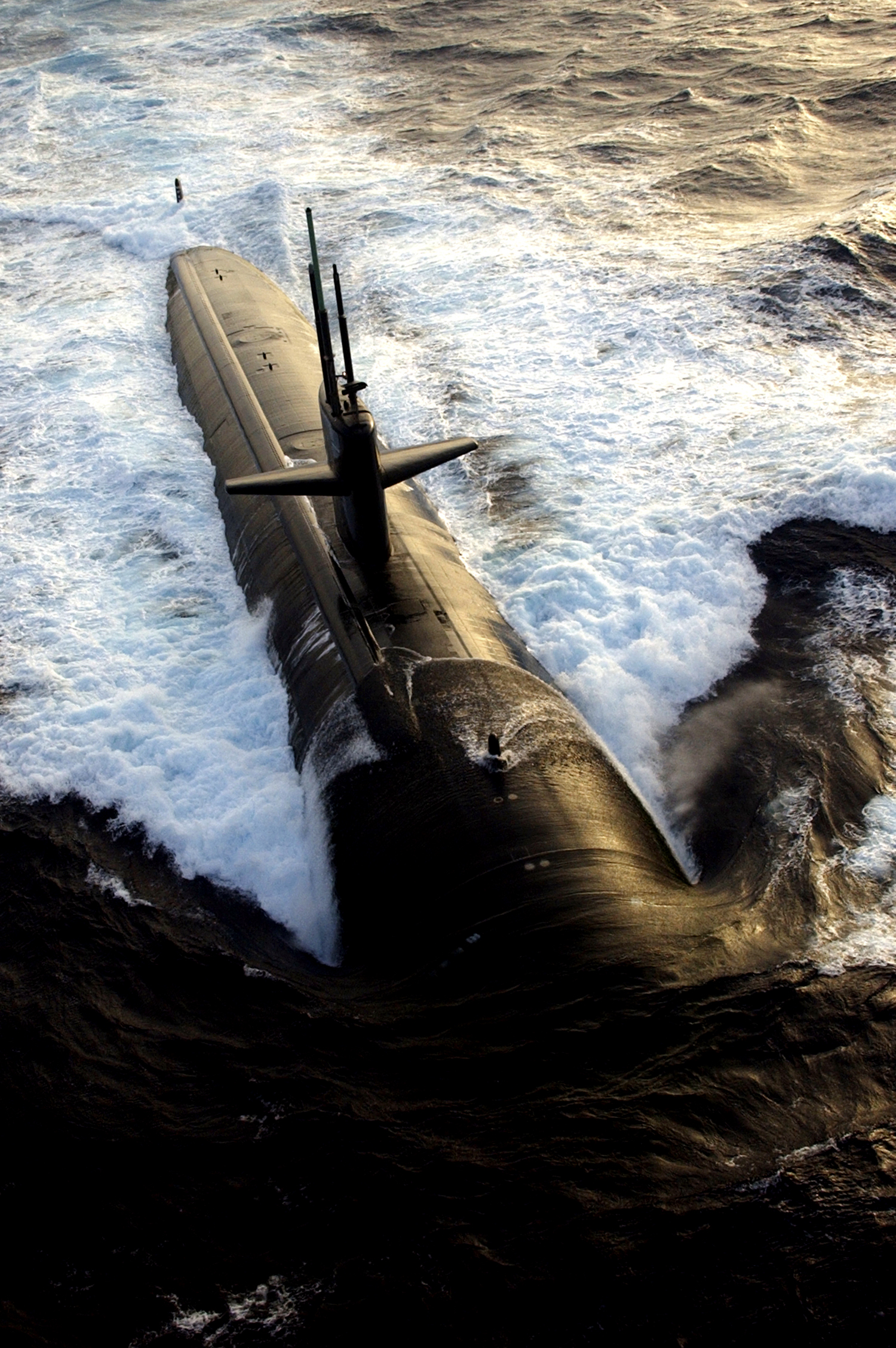 040712-N-0119G-010.jpg Atlantic Ocean (July 12, 2004) -- The Los Angeles-class submarine USS Albuquerque (SSN 706) surfaces in the Atlantic Ocean while participating in Majestic Eagle 2004. Majestic Eagle is a multinational exercise being conducted off the coast of Morocco. The exercise demonstrates the combined force capabilities and quick response times of the participating naval, air, undersea and surface warfare groups. Countries involved in the NATO led exercise include the United Kingdom, Morocco, France, Italy, Portugal, Spain, and Turkey. Truman's participation in Majestic Eagle is part of her scheduled deployment supporting the Navy's new fleet response plan (FRP) Summer Pulse 2004, the simultaneous deployment of seven carrier strike groups (CSGs), demonstrating the ability of the Navy to provide credible combat across the globe, in five theaters with other U.S., allied, and coalition military forces. U.S. Navy photo by Photographer's Mate Airman Rob Gaston (RELEASED)